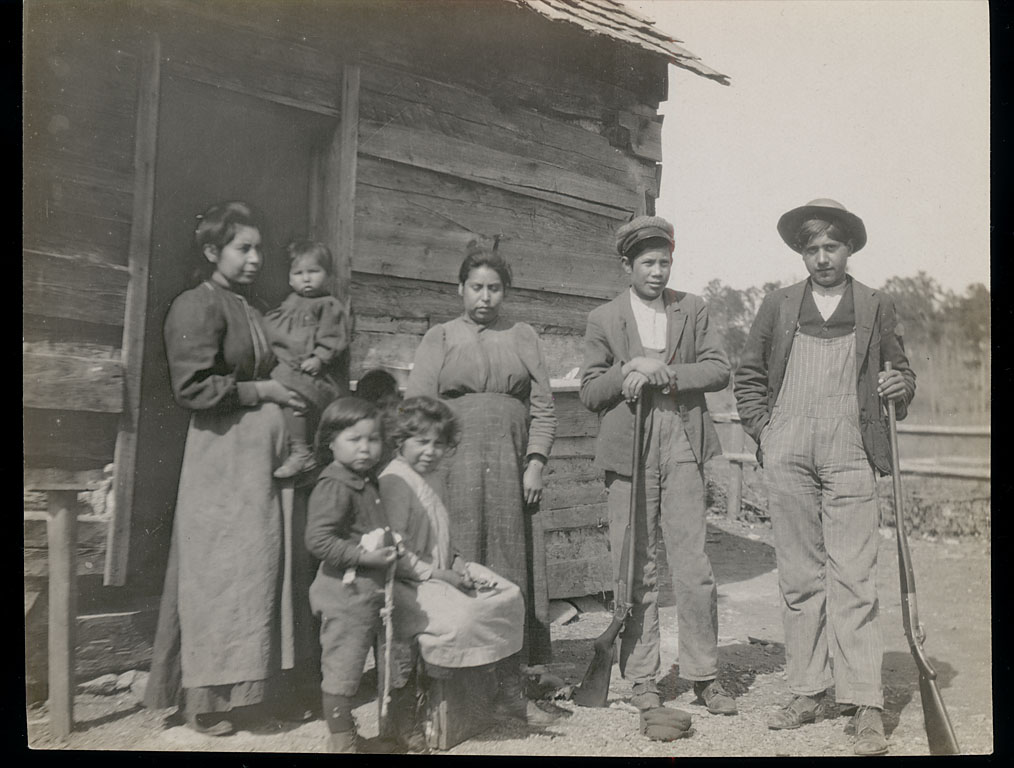 A Catawba (American Indian) family in South Carolina taken in 1908.